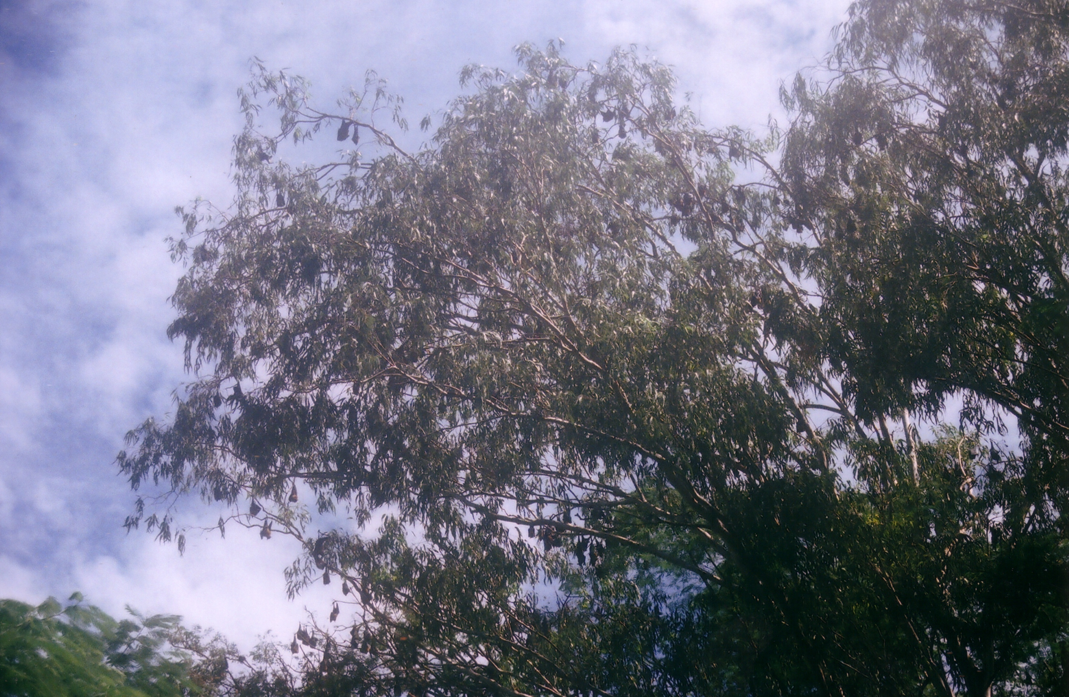 100s of Bats are hanging from the trees, near Pazhamudir cholai which is a few kilometres from Madurai, Tamil Nadu, India.